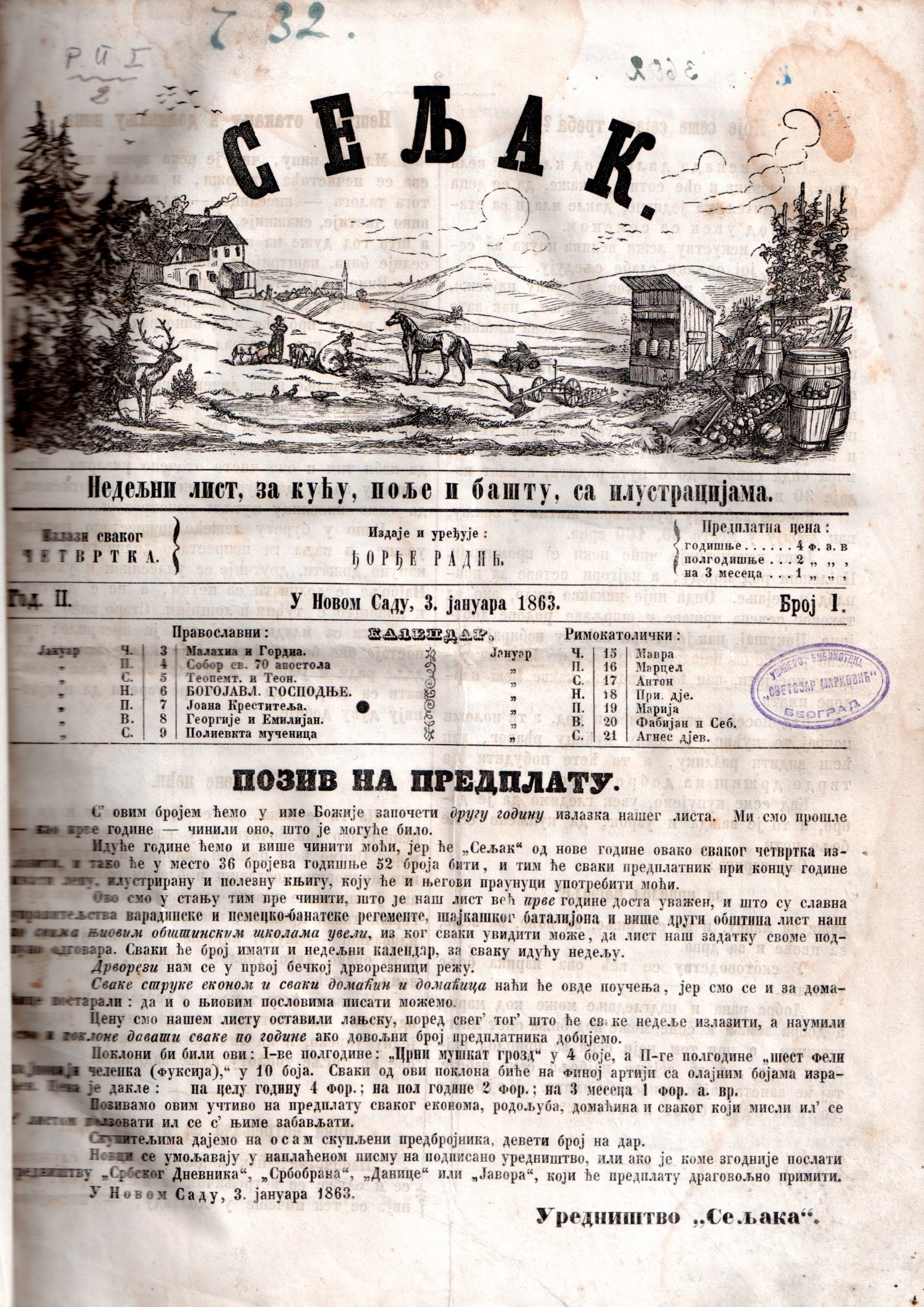 Cover of Magazine Seljak, 1863, Novi Sad Srpski (latinica): Korice časopisa Seljak iz 1863. godine, godište 2, broj 1